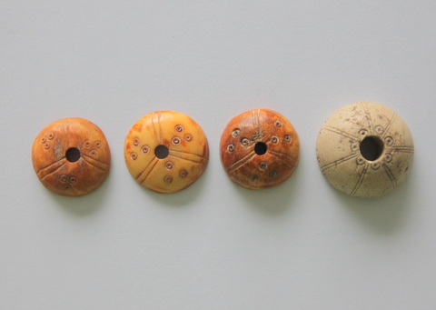 Drop spindles from bone middle ages.